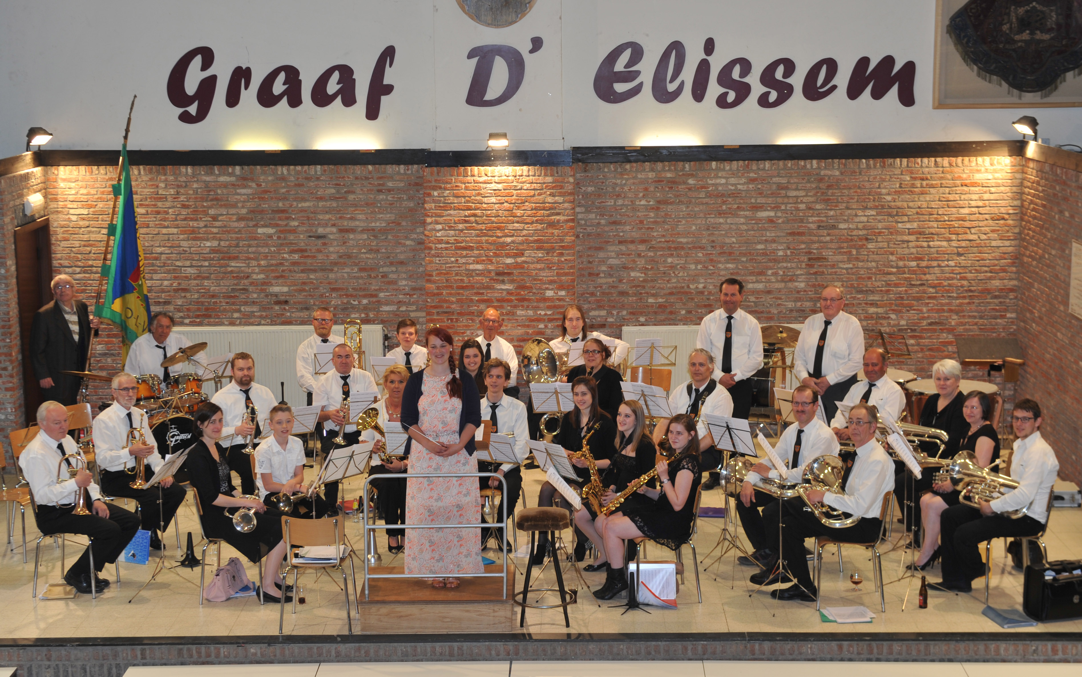 muziekvereniging graaf d elissen olvw 2